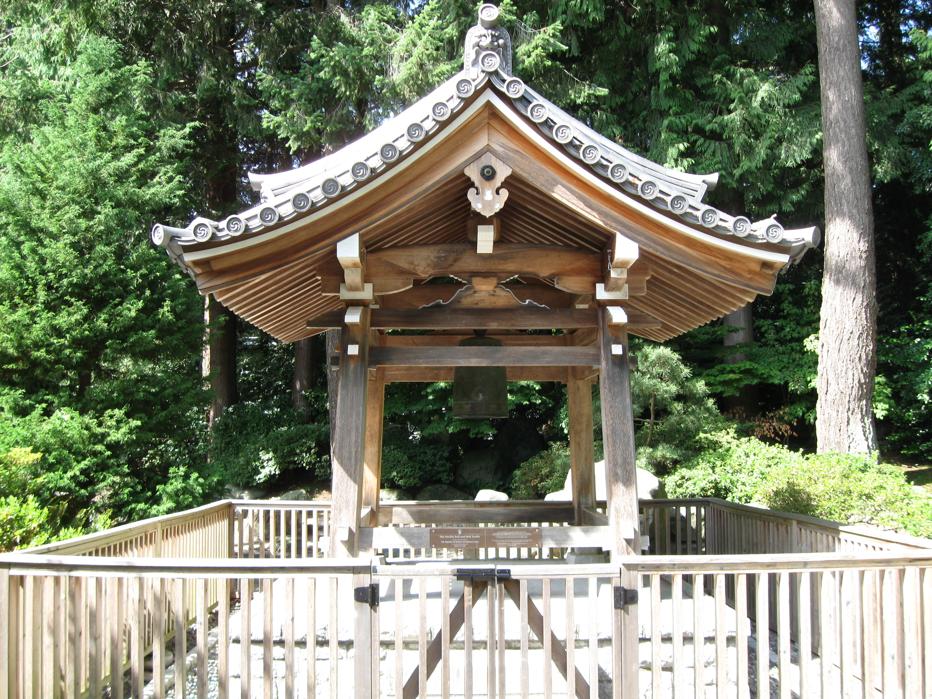 This is the Pacific Bell and Bell Tower on UBC campus in Vancouver, BC, Canada. The Pacific Bell was cast by the Japanese craftsman Masahiko Katori and presented to the University of British Columbia in 1983. The bell is inscribed with Japanese characters which translate as "a clear mind to tranquil thoughts." The Bell and Tower was dedicated by former Japanese Prime Minister Yasuhiro Nakasone on January 14, 1986.